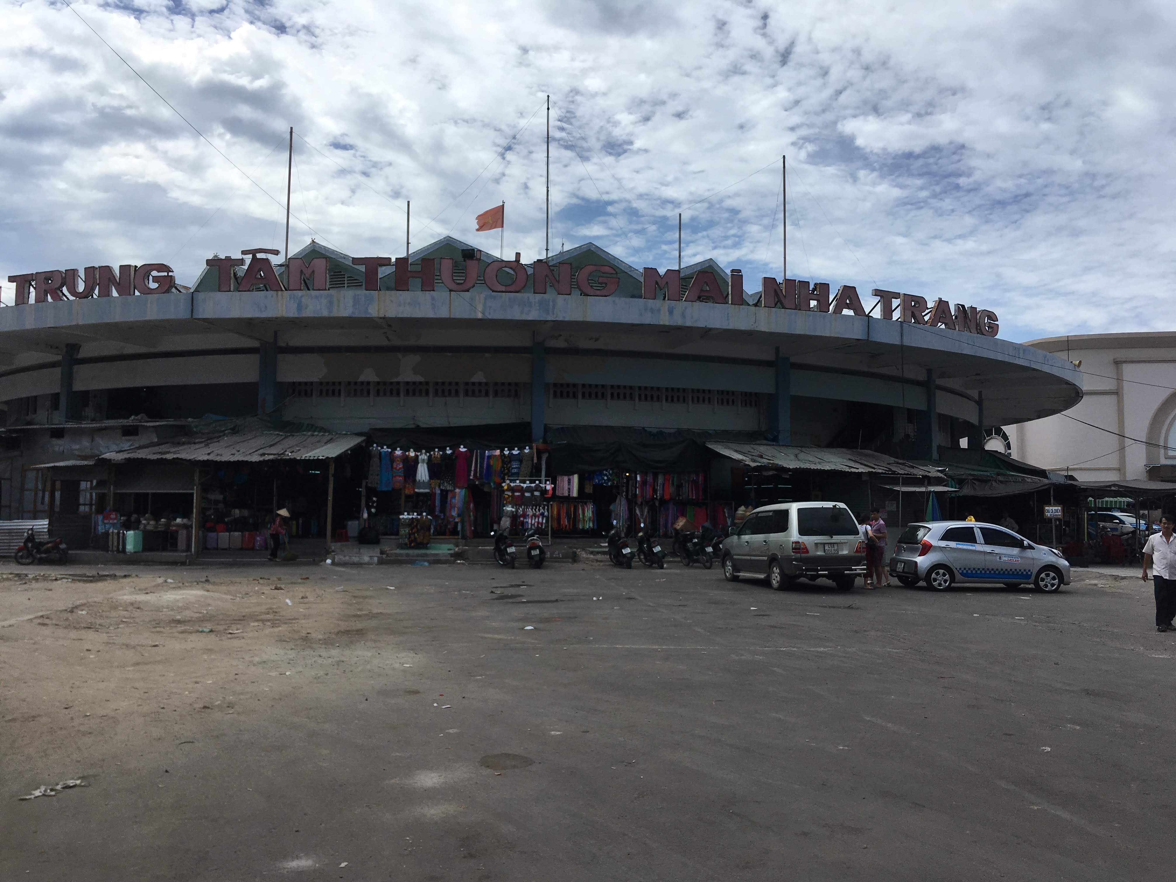 The Dam Market in Nha Trang, Vietnam.